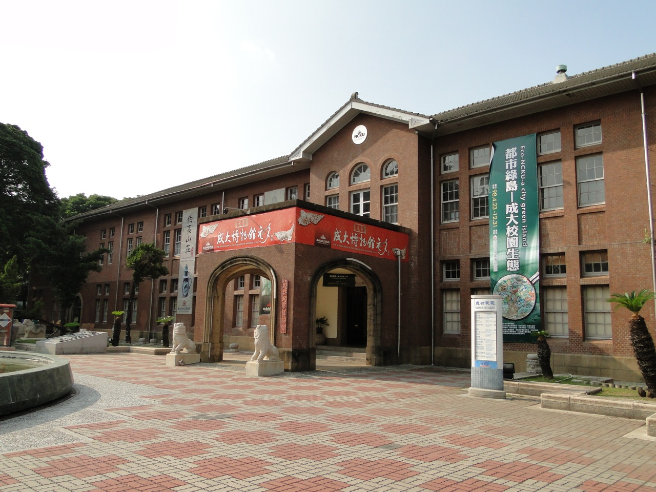 National Cheng Kung University Museum, Tainan, Taiwan中文（台灣）: 國立成功大學博物館。